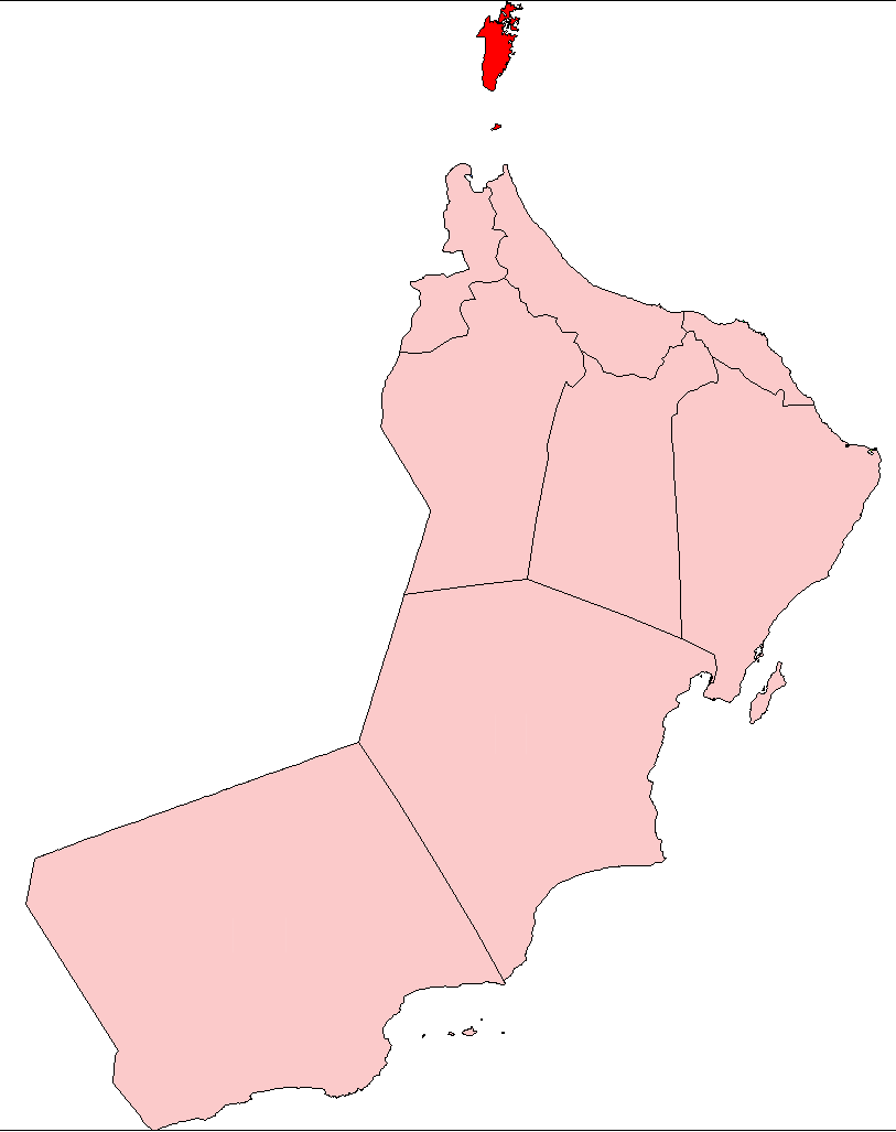 Map of Musandam region, Oman.